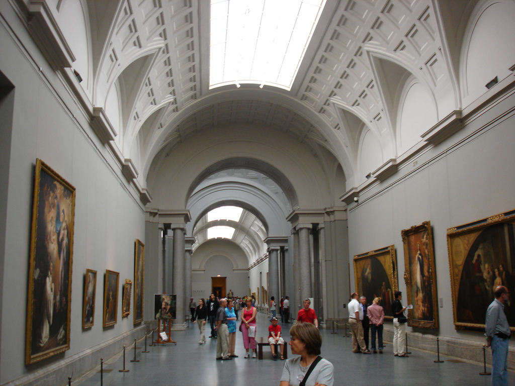 Interior of the Prado Museum (Madrid, Spain).